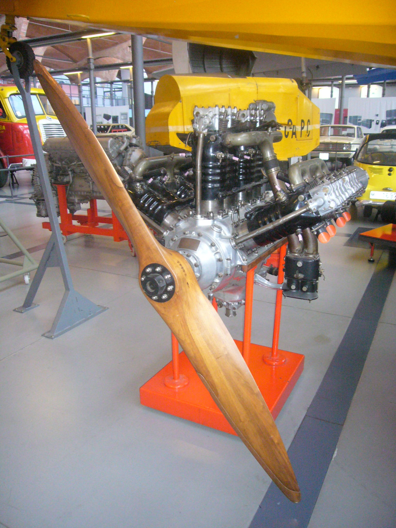 Elizalde A (licence-built Lorraine 12Eb Courlis) aircraft engine - 450hp